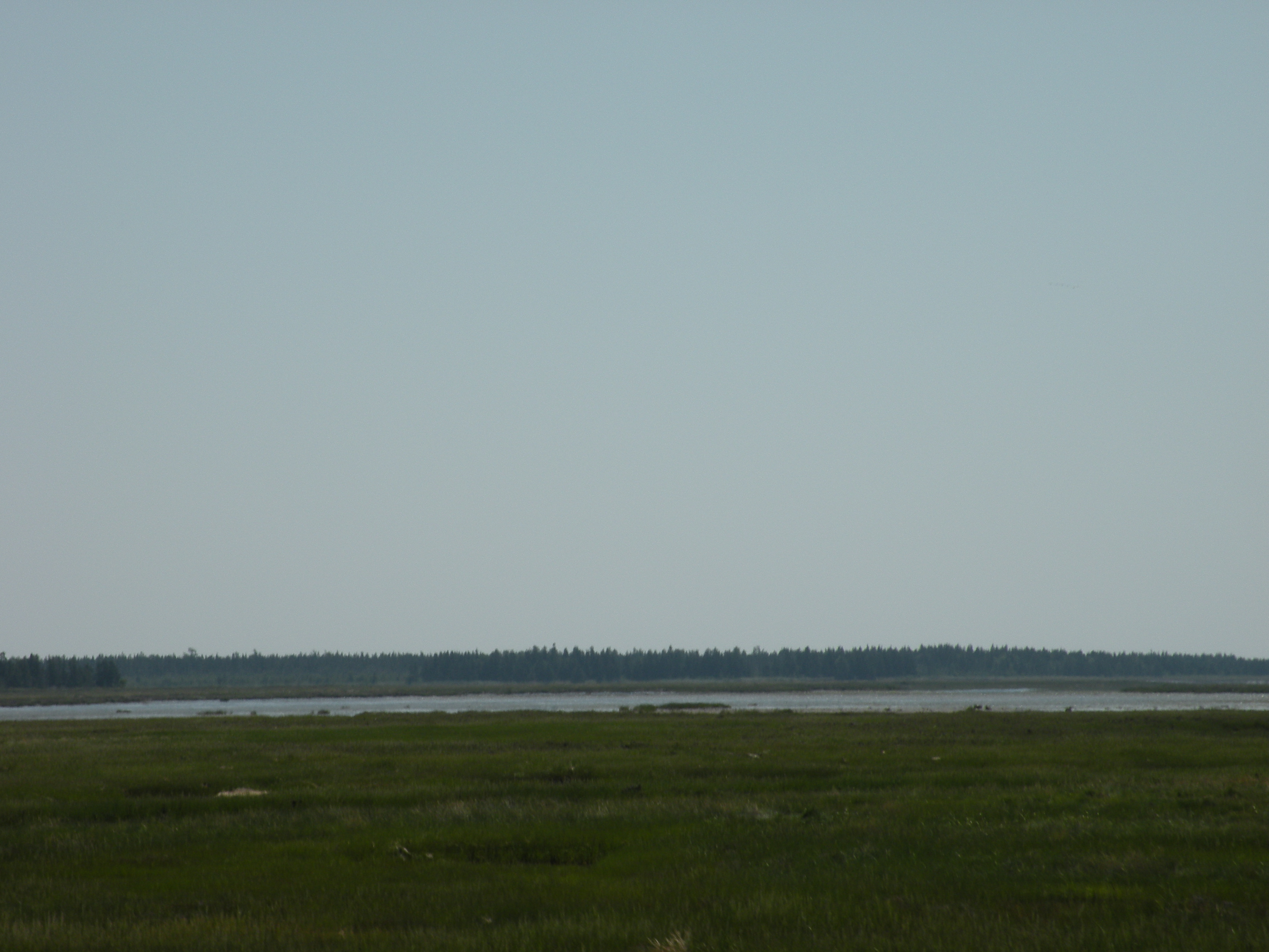 The marshes in Pokesudie, New Brunswick, Canada.